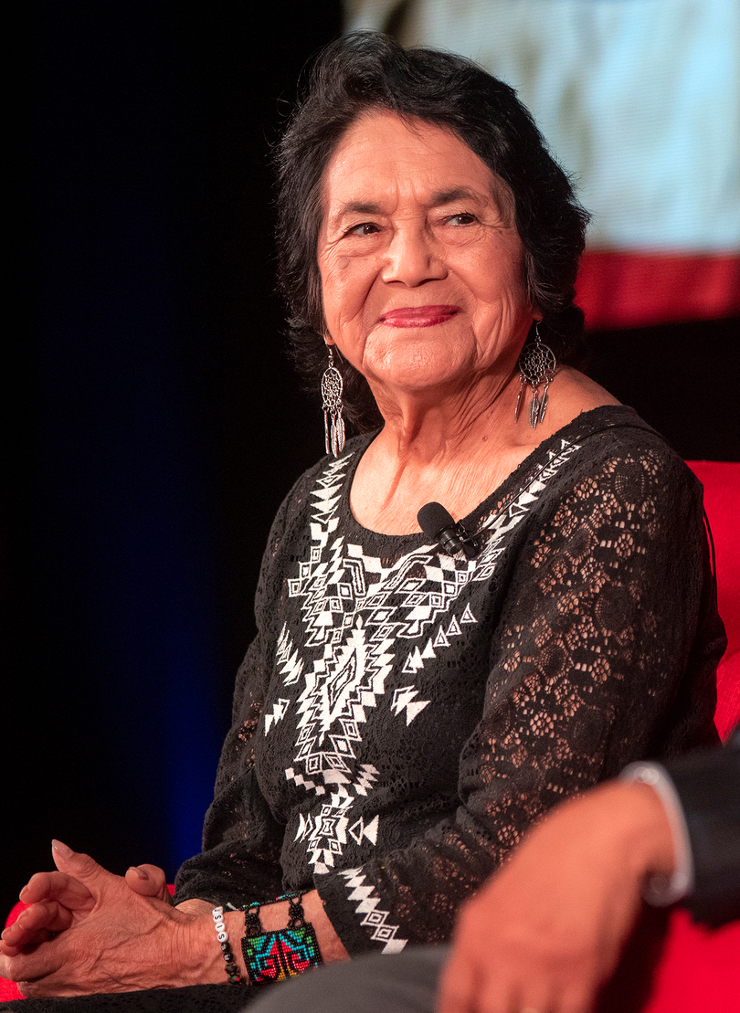 Longtime civil rights leaders Dolores Huerta and Andrew Young discuss their social justice efforts at The Summit on Race in America at the LBJ Presidential Library on Monday, April 8, 2019. Huerta, a Presidential Medal of Freedom recipient, co-founded the United Farm Workers of America with Cesar Chavez in the 1960s and has spent decades advocating for laborers, women, and children.